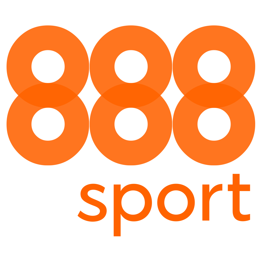 The logo of online sports betting company 888sport.